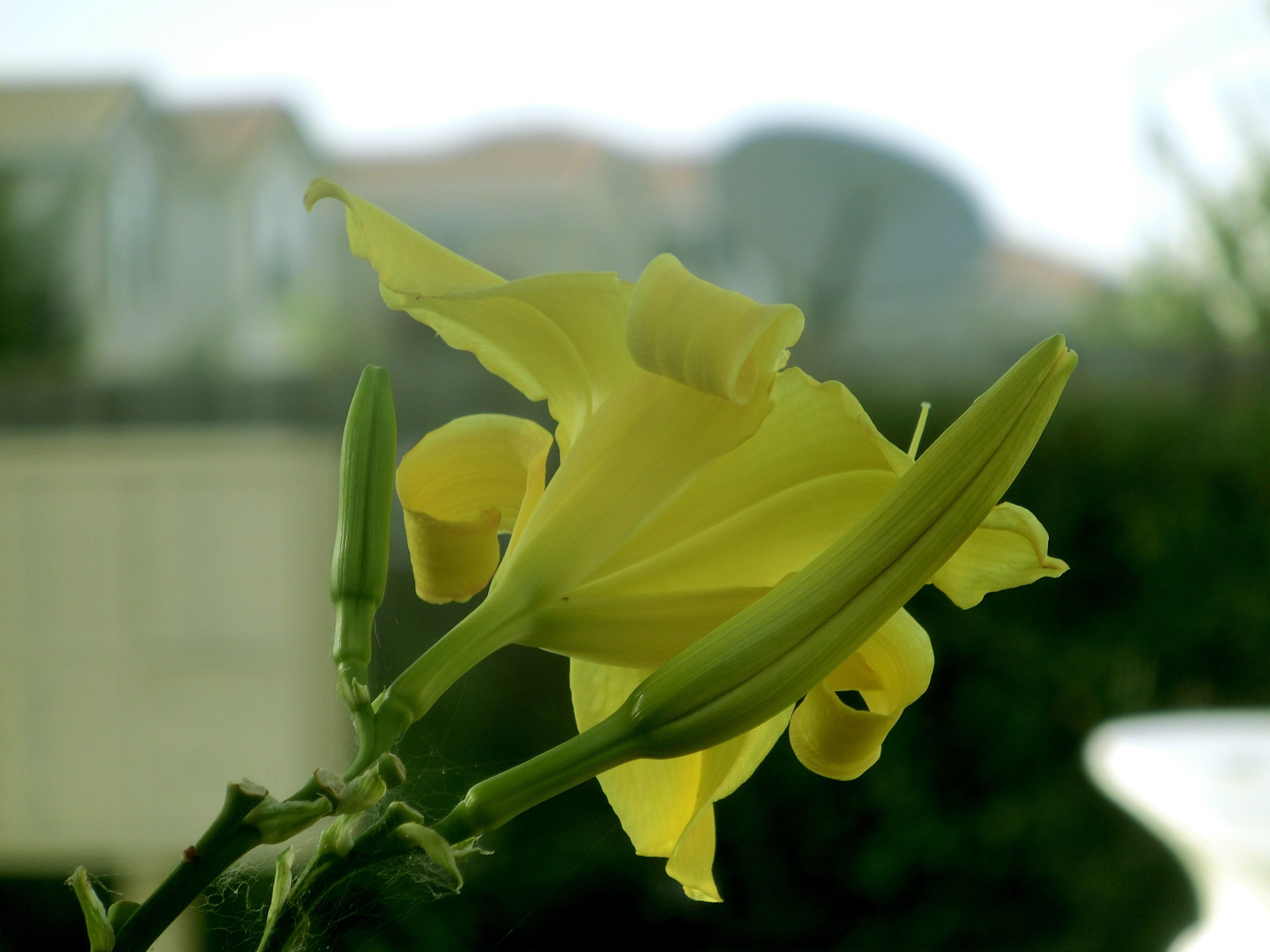 I took a photo of a flower near my house. I used a Casio Exilim EX-ZR100. For the shallow focus, I went into macro zoom and focused on the flower. I color corrected it in After Effects CS4